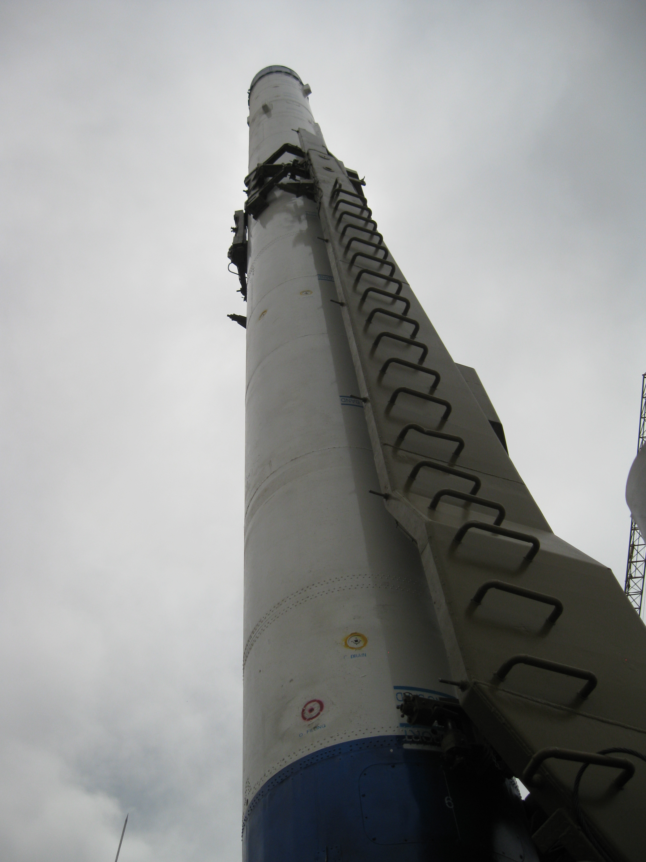 Omid [was Iran's first domestically made satellite Described as a data-processing satellite for research and telecommunications, Iran's state television reported that it was successfully launched on February 2, 2009